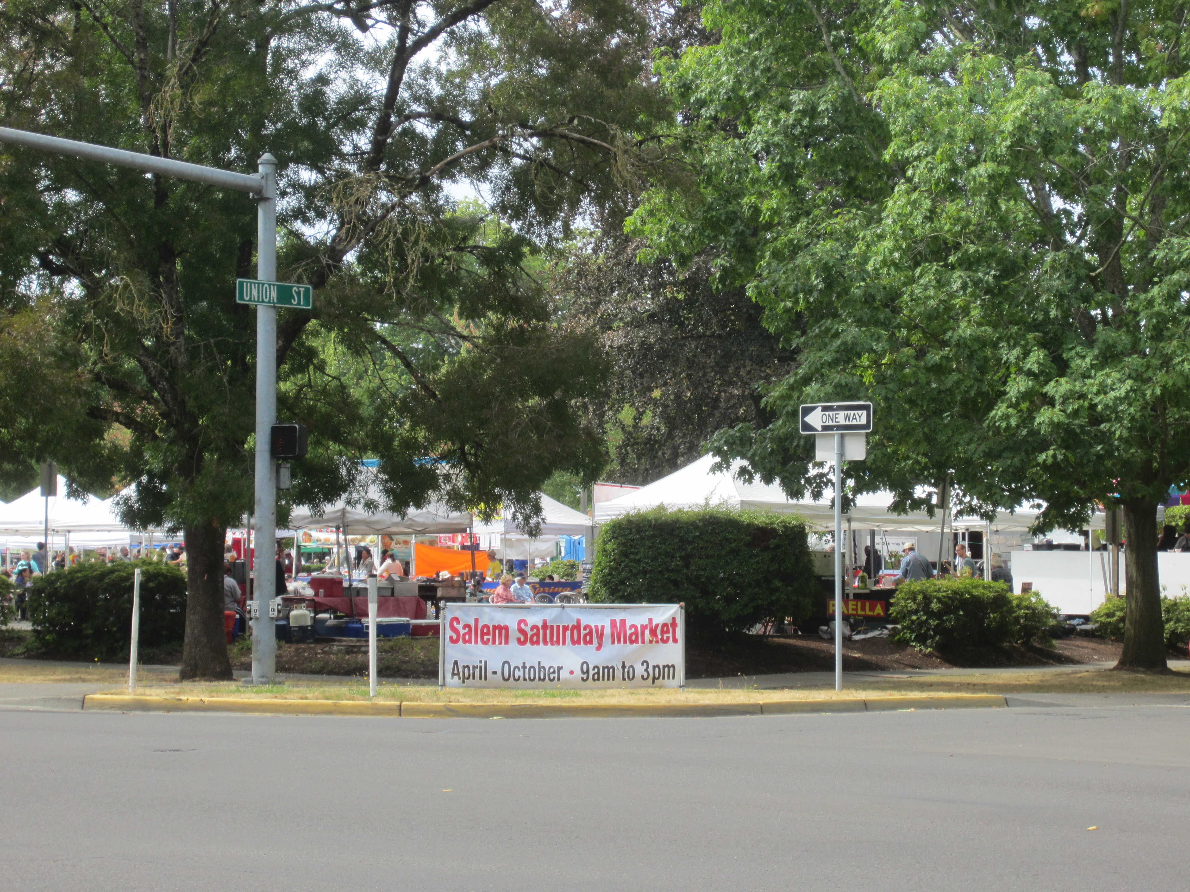 Salem, Oregon (2018)